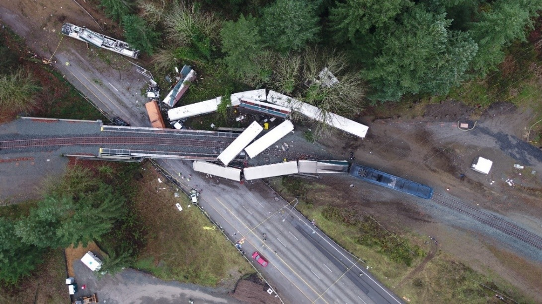 Aerial view of the Cascades trainset in the 2017 Washington train derailment.